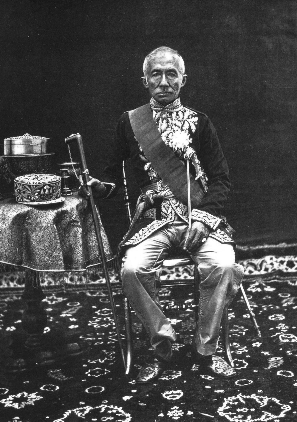 King Mongkut of Siam, Bangkok (European Dress), 1865 - 1866. Original version: Modern albumen print from wet-collodion negative, by John Thomson. Current version: unknown medium